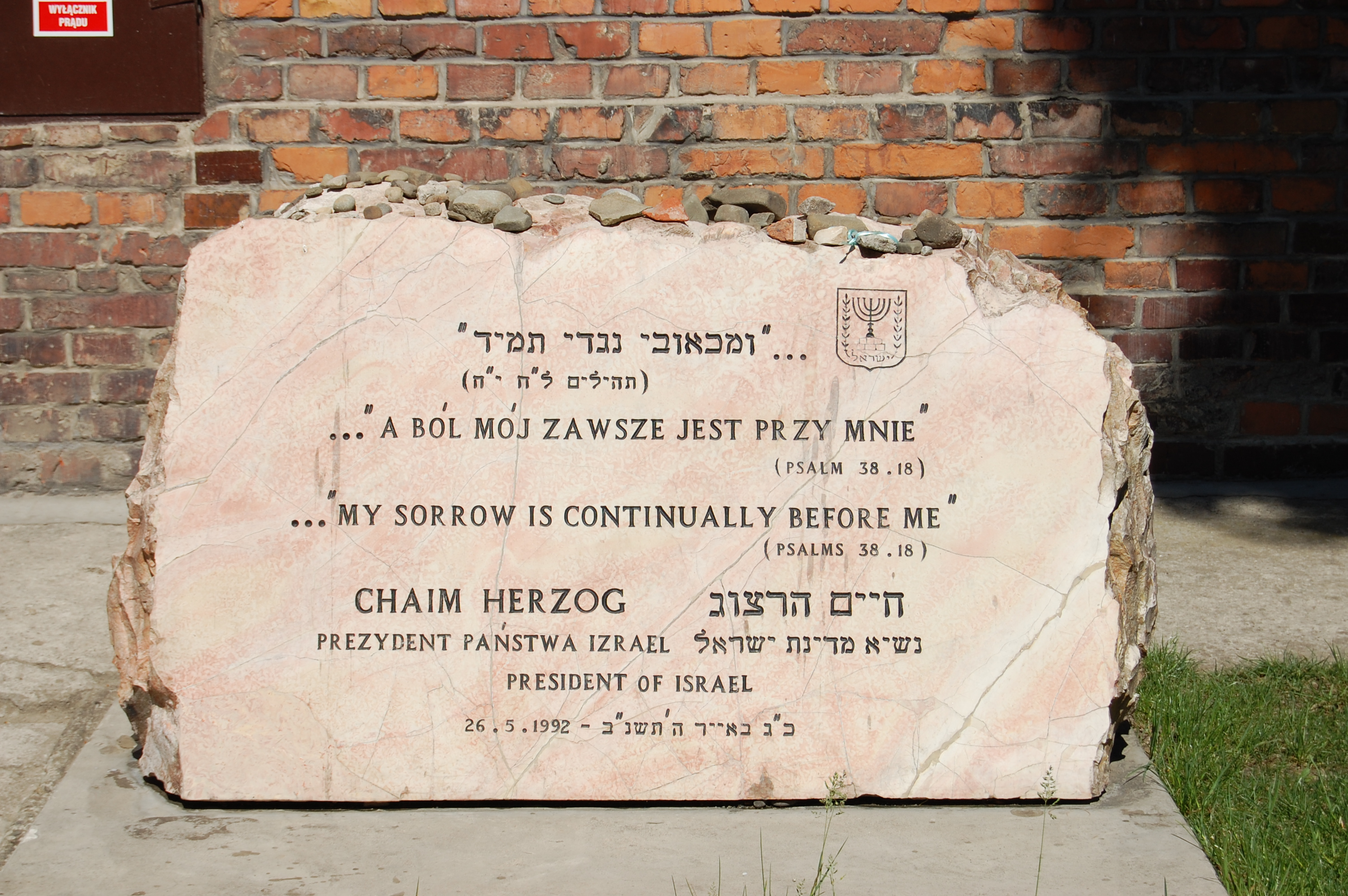 Memorial stone from former Israeli president Chaim Herzog in Auschwitz. This stone is from rock in Jerusalem and identical stone is in concentration camp Terezin in Czech Republic.